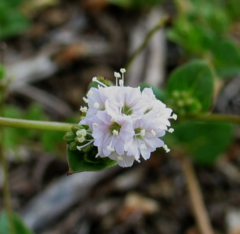 Alena or Red spiderling Indigenous to the Hawaiian Islands Nyctaginaceae Oʻahu Early Hawaiians used the large roots of alena for medicinal purposes.